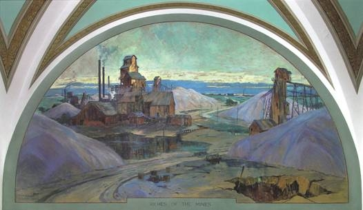 Tom P. Barnett completed the mural, Riches of the Mines, in the Missouri State Capitol in July, 1922. (It is signed and dated in the lower left corner.)